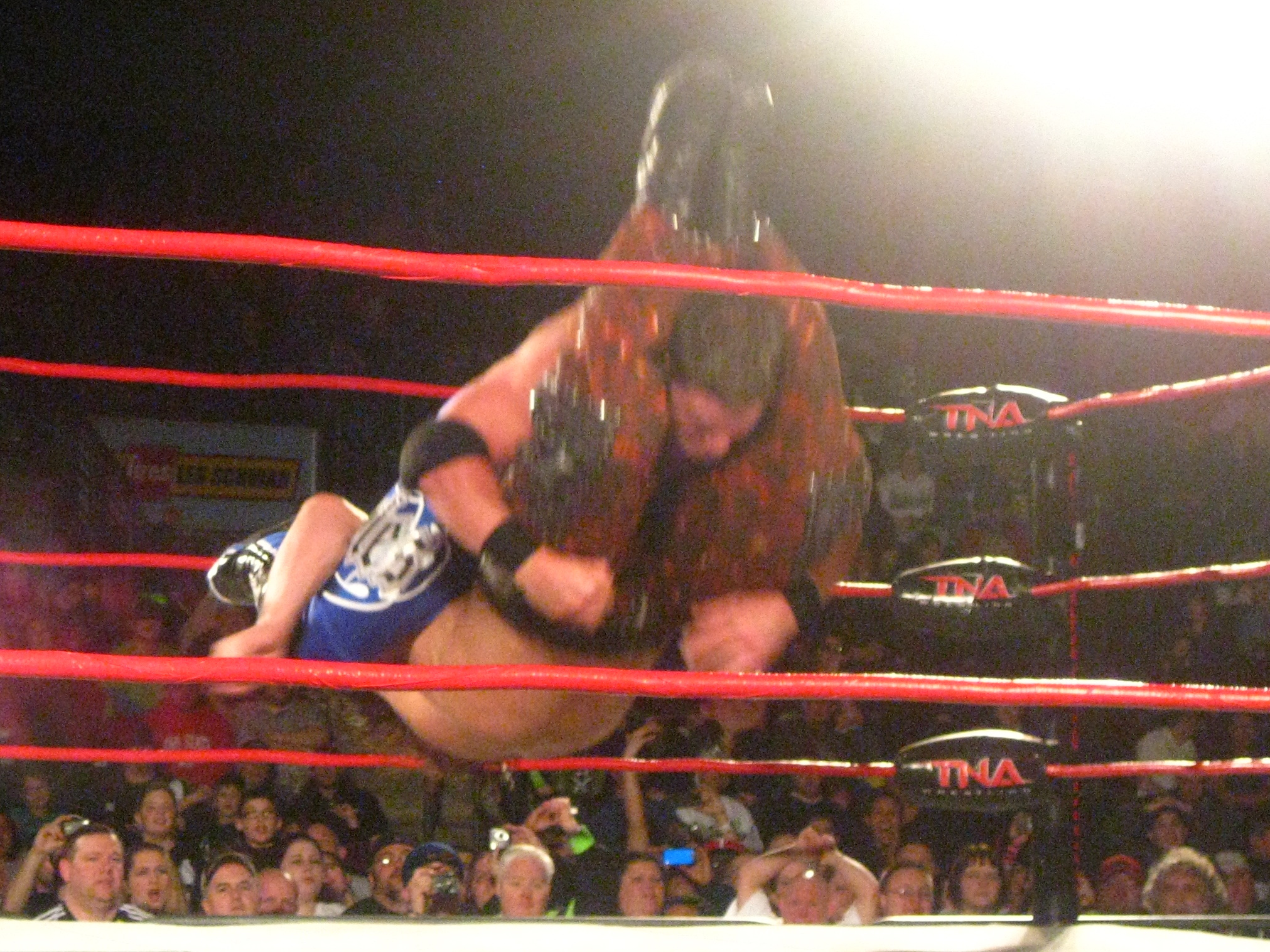 A TNA Live! Even at the ShoWare Center in Kent, WA. No PRO cameras were allowed so I had to put my Canon PowerShot SD1100 IS to work!